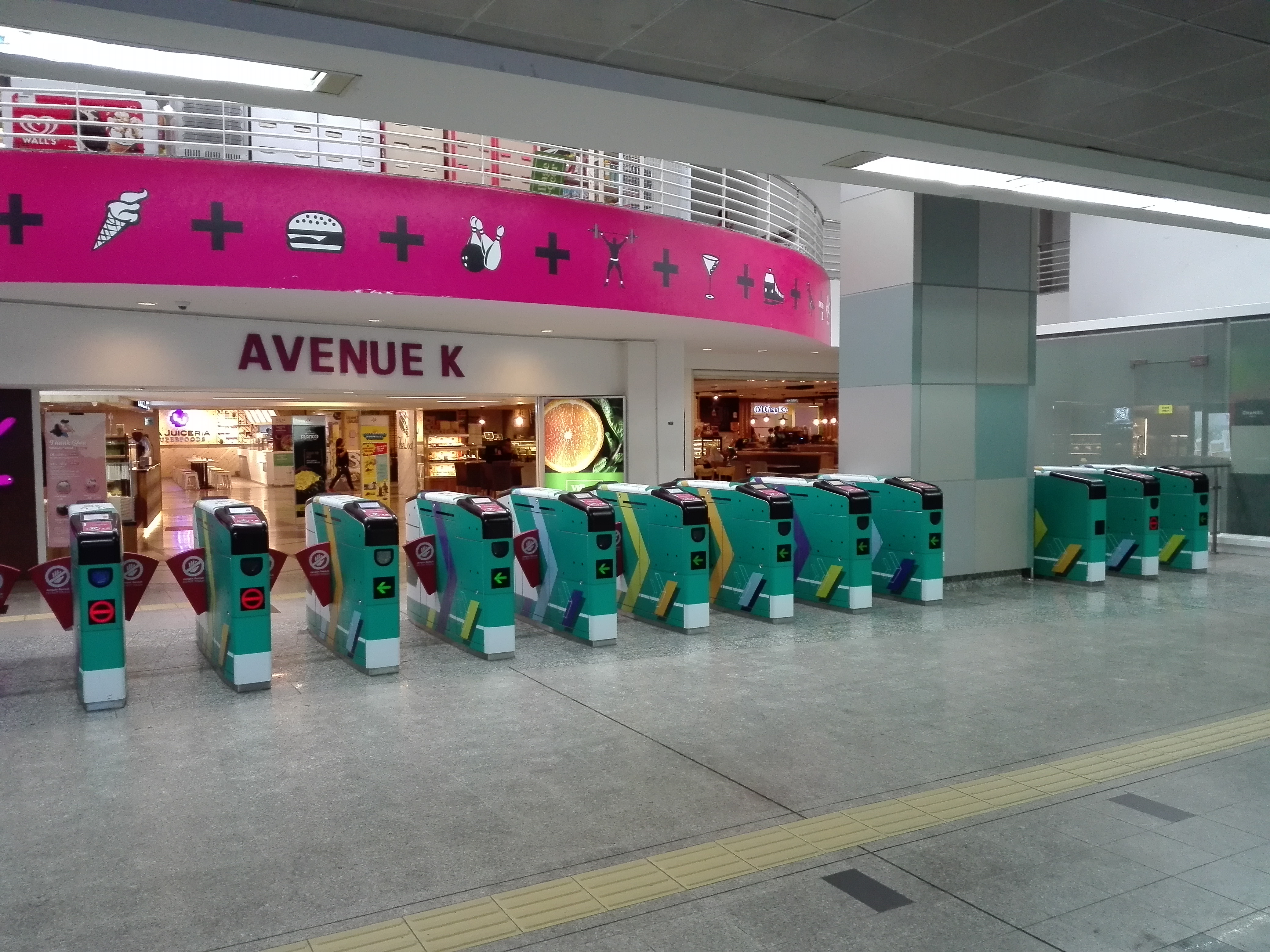 The faregates of KLCC LRT station. Outside of the fare gates, the Avenue K mall which is integrated fully with the station can be seen.